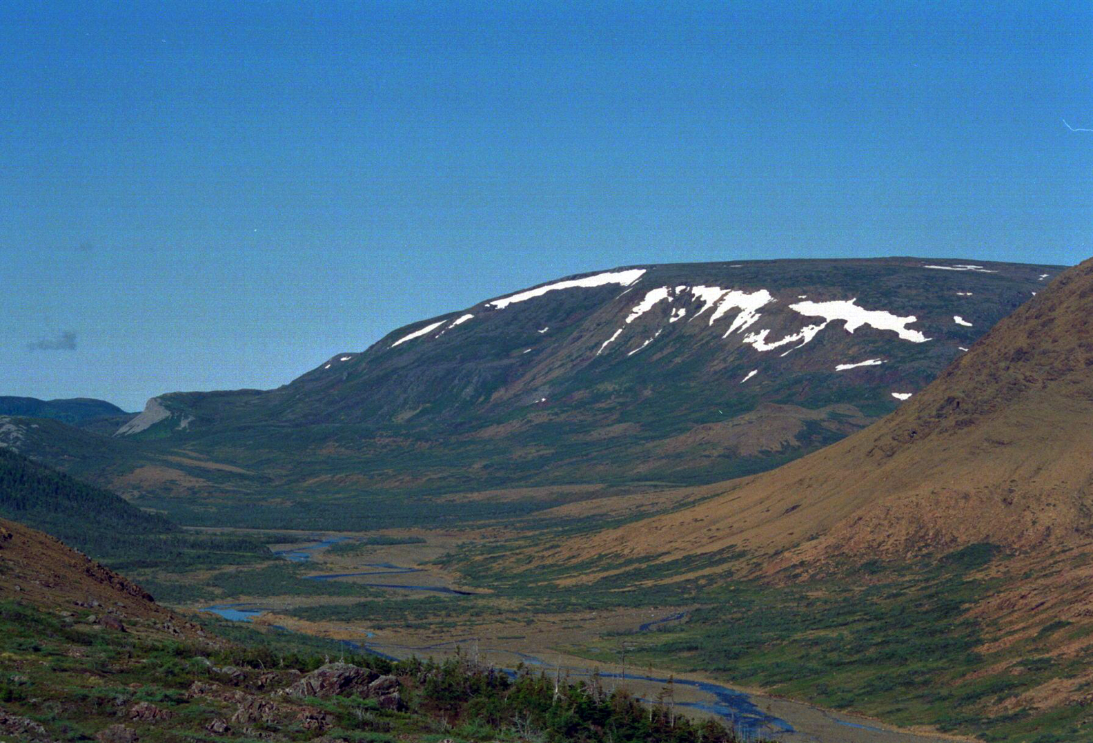 The Cabox in the Long Range Mountains, Newfoundland, Newfoundland and Labrador, Canada. The factual accuracy of this description or the file name is disputed. Reason: See Commons:Deletion requests/File:Lewis Hills, Long Range Mountains, Newfoundland, Canada - 200707.jpg